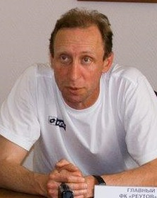 Sergei Kolotovkin as a head coach of FC Reutov